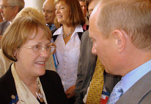 Karen Dawisha meeting Vladimir Putin at a conference.